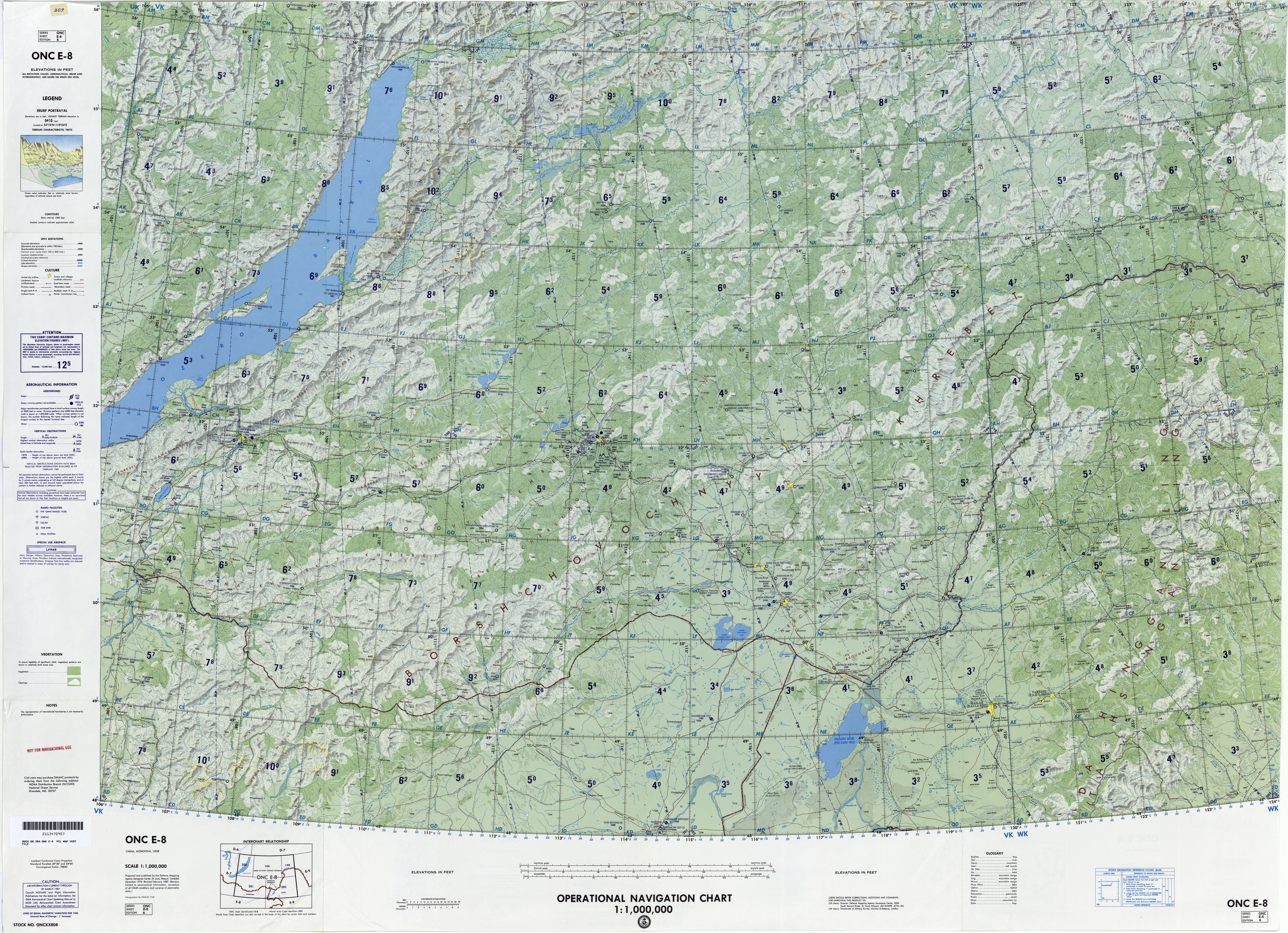 1:1,000,000 scale Operational Navigation Chart, Sheet E-8, 6th edition. Covers China, Mongolia, U.S.S.R. Lambert Conformal Conic Projection. Standard Parallels 49 20N and 54 40N. Center longitude 115E.